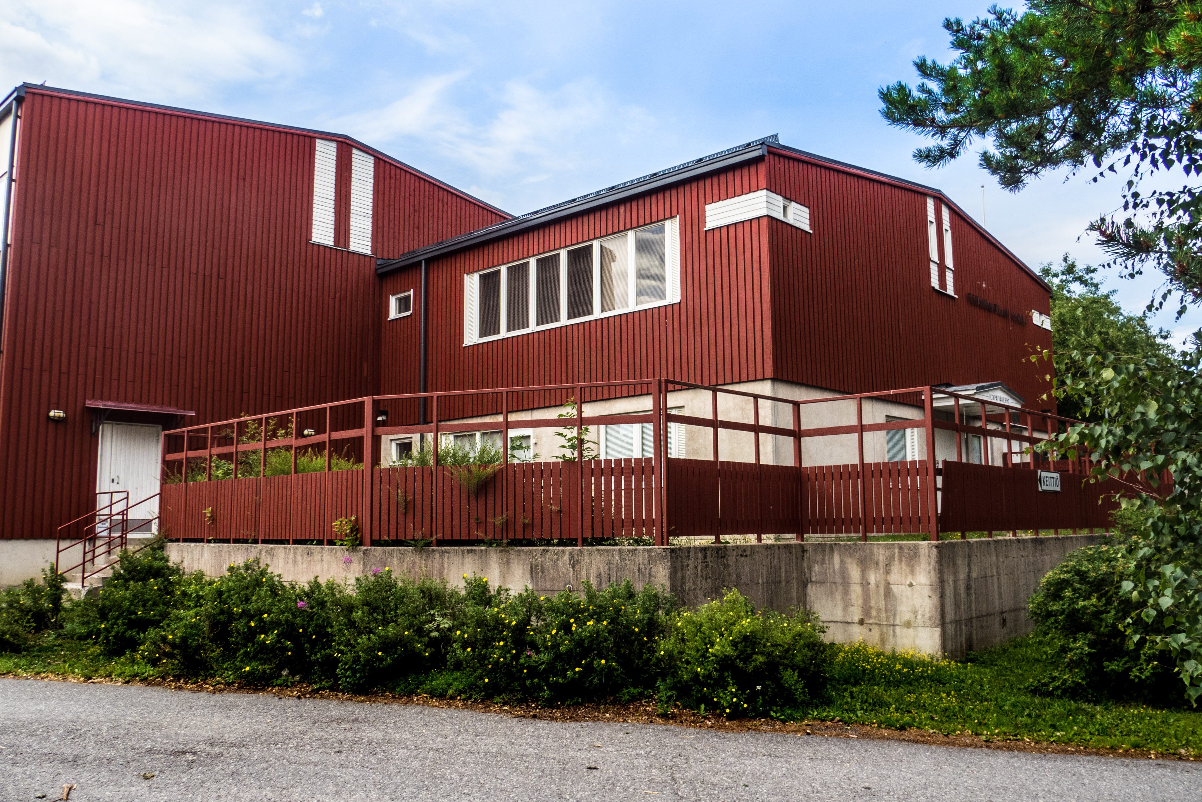 Primary school in Teräsrautela, Turku, Finland. Architect Heikki Sarainmaa, completed 1956.